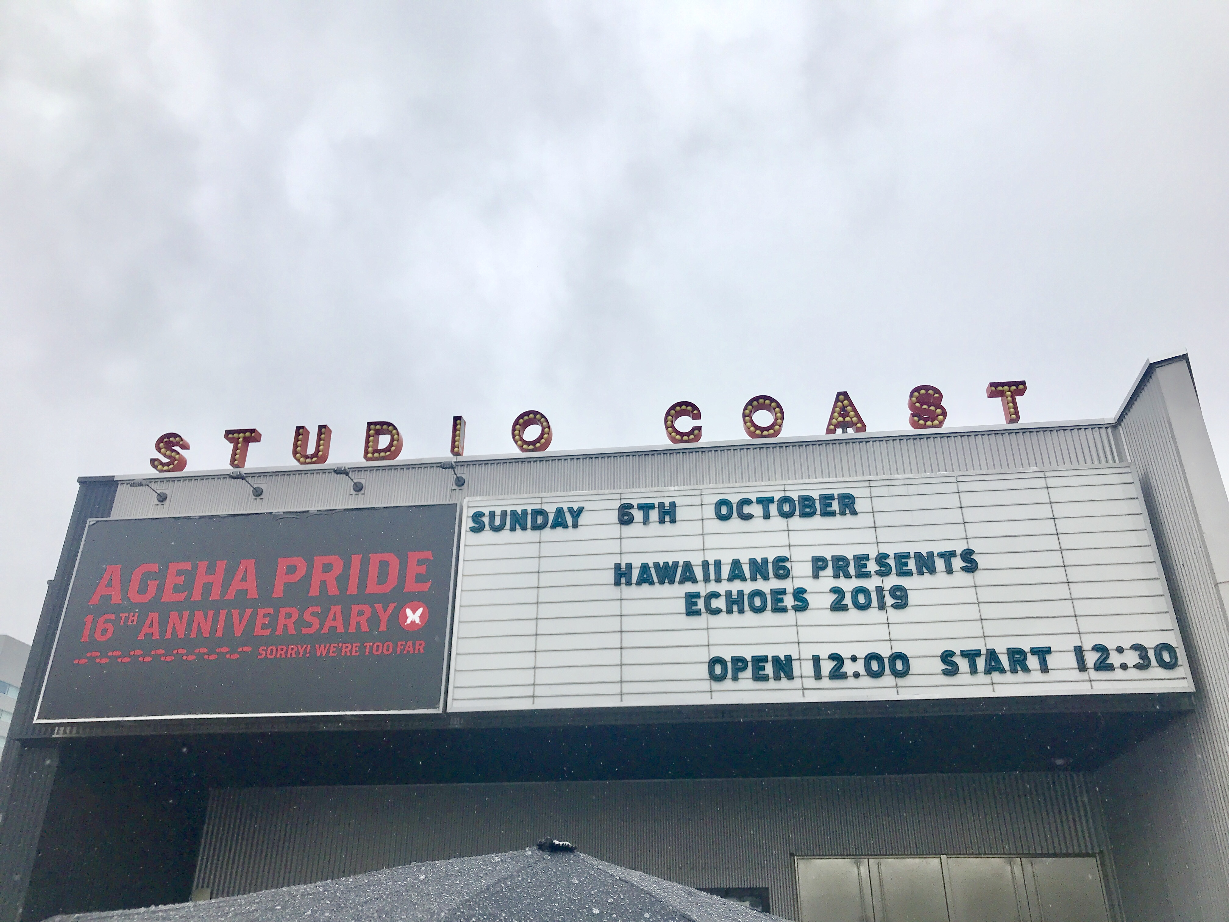 HAWAIIAN6 presents ECHOES 2019